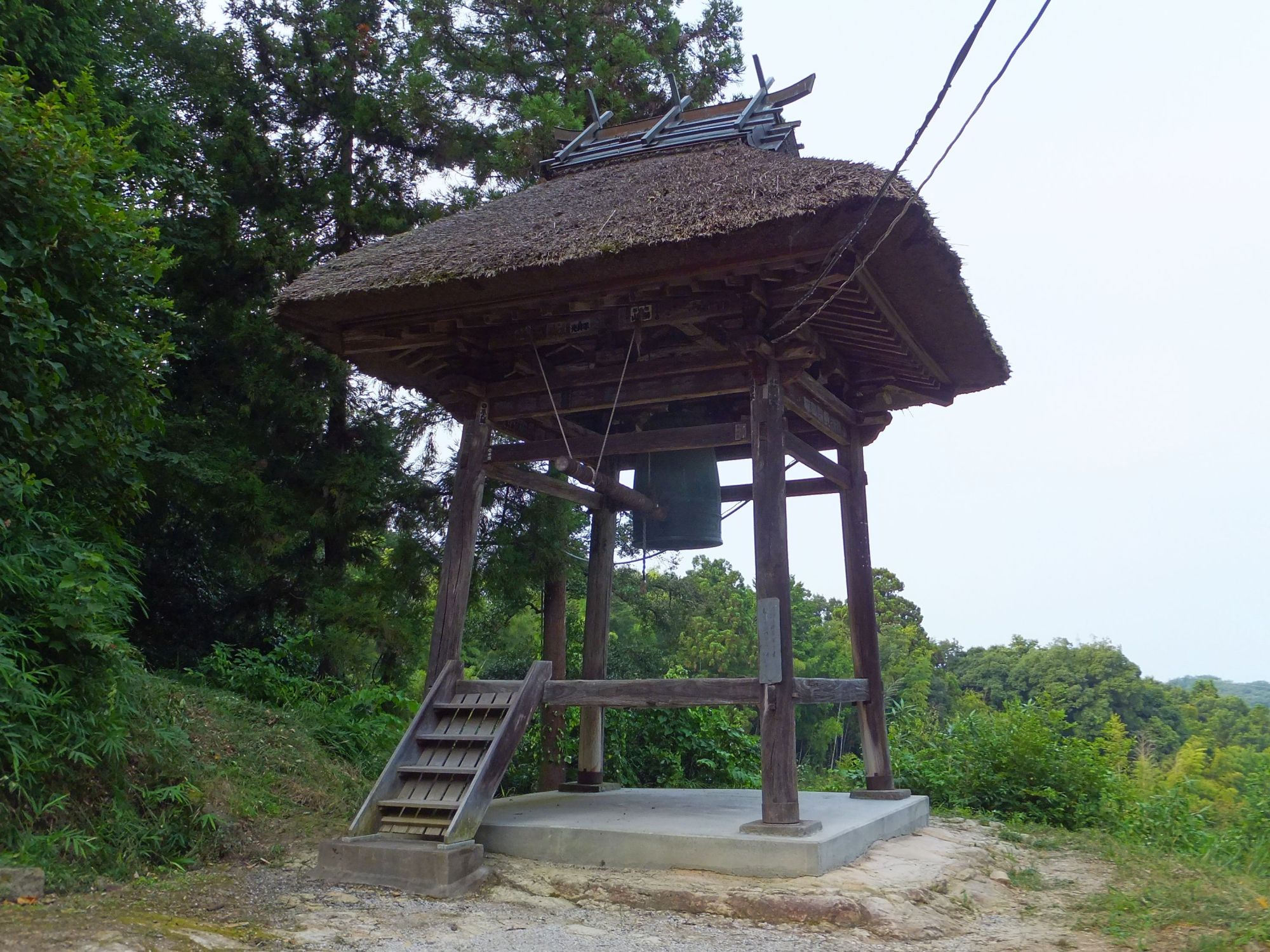 Bell tower of Shōbō-ji temple in Higashimatsuyama-shi, Saitama